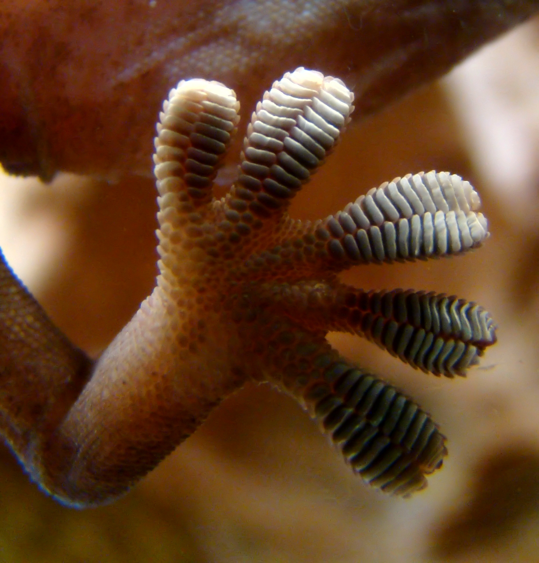 Close-up of the underside of a gecko's foot as it walks on a glass wall. Van der Waals force interactions between the finely divided setae (hairs on the toes) and the glass enables the gecko to stay in place and walk on the seemingly smooth glass.